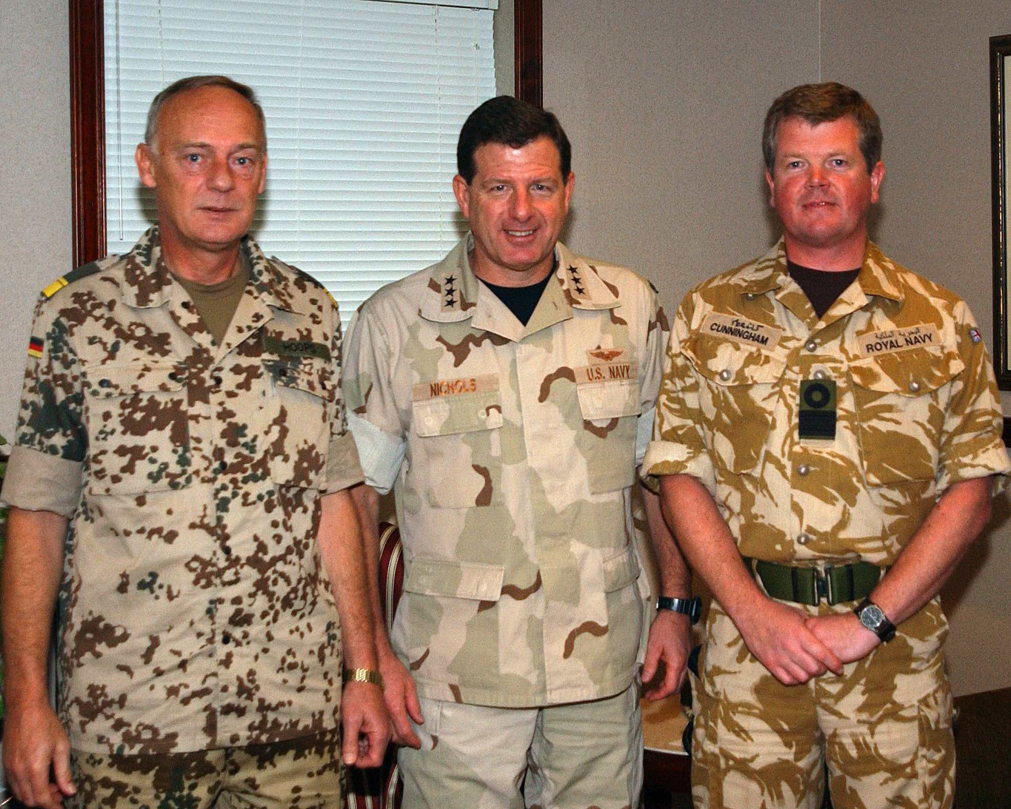 German Rear Adm. Henning Hoops (left), Commander, U.S. Navy Central Command/Commander, 5th Fleet Vice Adm. David Nichols, and British Royal Navy Commodore Tom Cunningham, participate in a change of command ceremony at U.S. Navy Central Command headquartered in Bahrain, Dec. 6. Hoops relieved Cunningham as Commander, Task Force 150 (CTF-150). CTF-150 is a multinational task force, consisting of eight ships from six coalition nations operating under the command of Nichols. CTF-150 is a key element of Commander, U.S. Naval Forces Central Command/Commander, U.S. 5th Fleet’s contribution to the campaign against international terrorism.